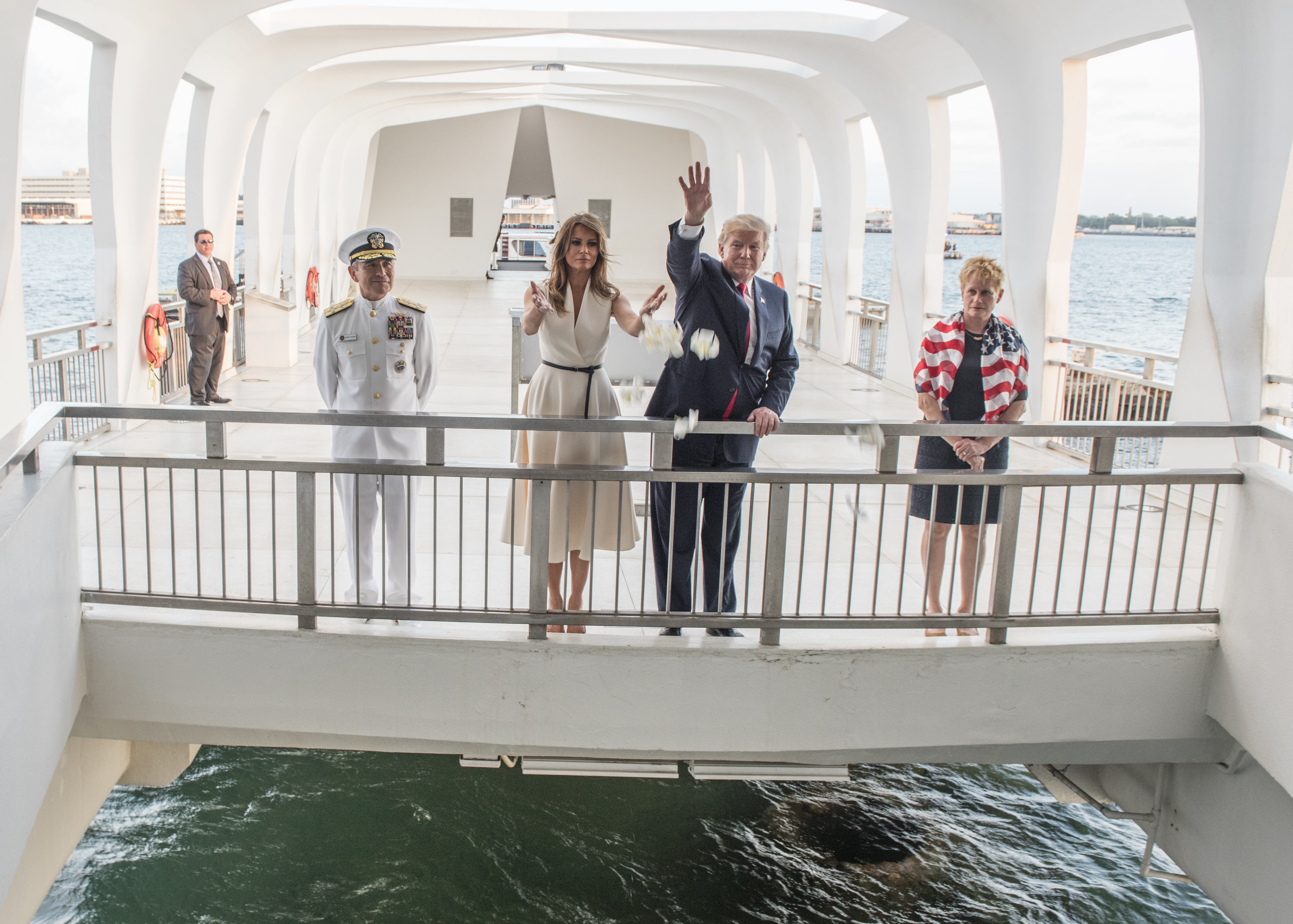 PEARL HARBOR, Hawaii (Nov. 3, 2017)— U.S. Pacific Command (USPACOM) Commander, Adm. Harry Harris observes First Lady Melania Trump and President Donald J. Trump as they offer flowers in honor of fallen service members at the USS Arizona Memorial. The President is in Hawaii to receive a briefing from USPACOM prior to traveling to Japan, the Republic of Korea, China, Vietnam and the Philippines from November 3-14. During the trip the President will underscore his commitment to longstanding U.S. alliances and partnerships, and reaffirm U.S. leadership in promoting a free and open Indo-Asia-Pacific region. The president’s engagements will strengthen the international resolve to confront the North Korean threat and ensure the complete, verifiable and irreversible denuclearization of the Korean Peninsula.